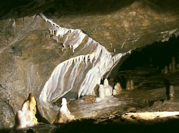 Calc-sinter section in an upper level of Hermann's Cave, Saxony-Anhalt, Germany